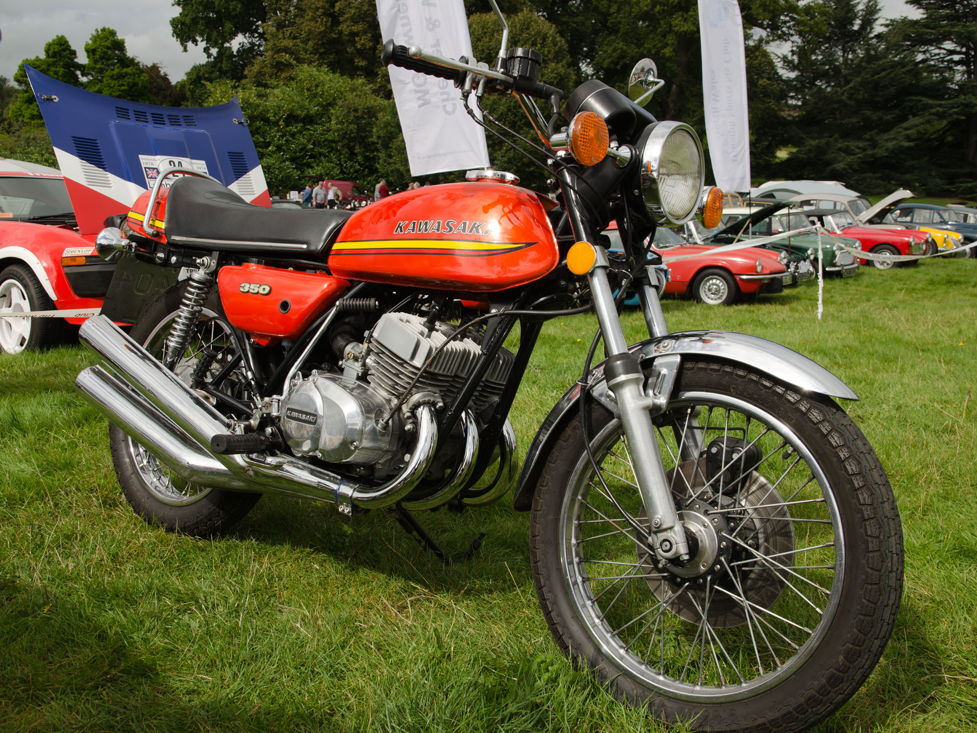 Cholmondeley Classic Car Show 31/08/2014